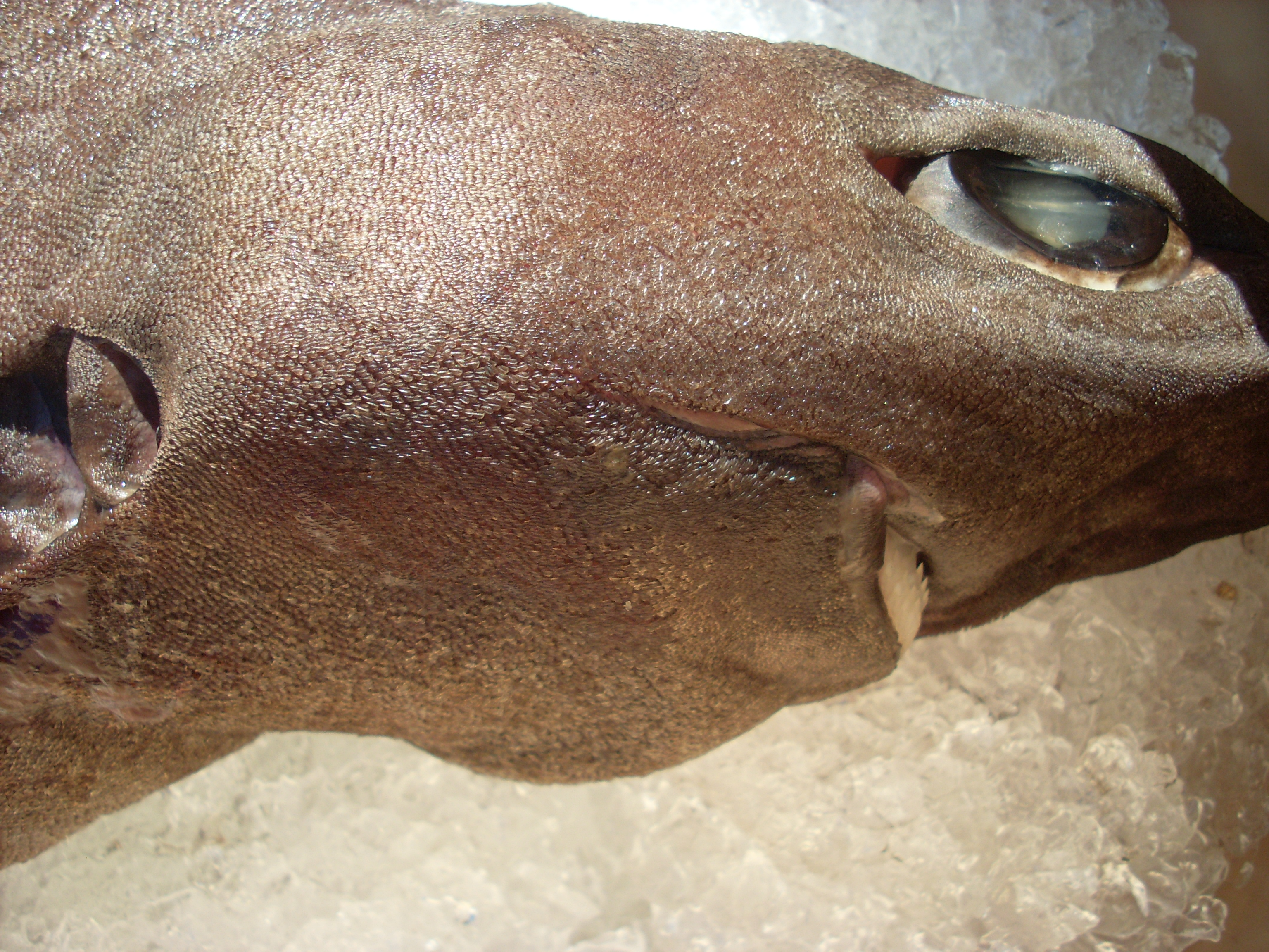 Leafscale gulper shark (Centrophorus squamosus)